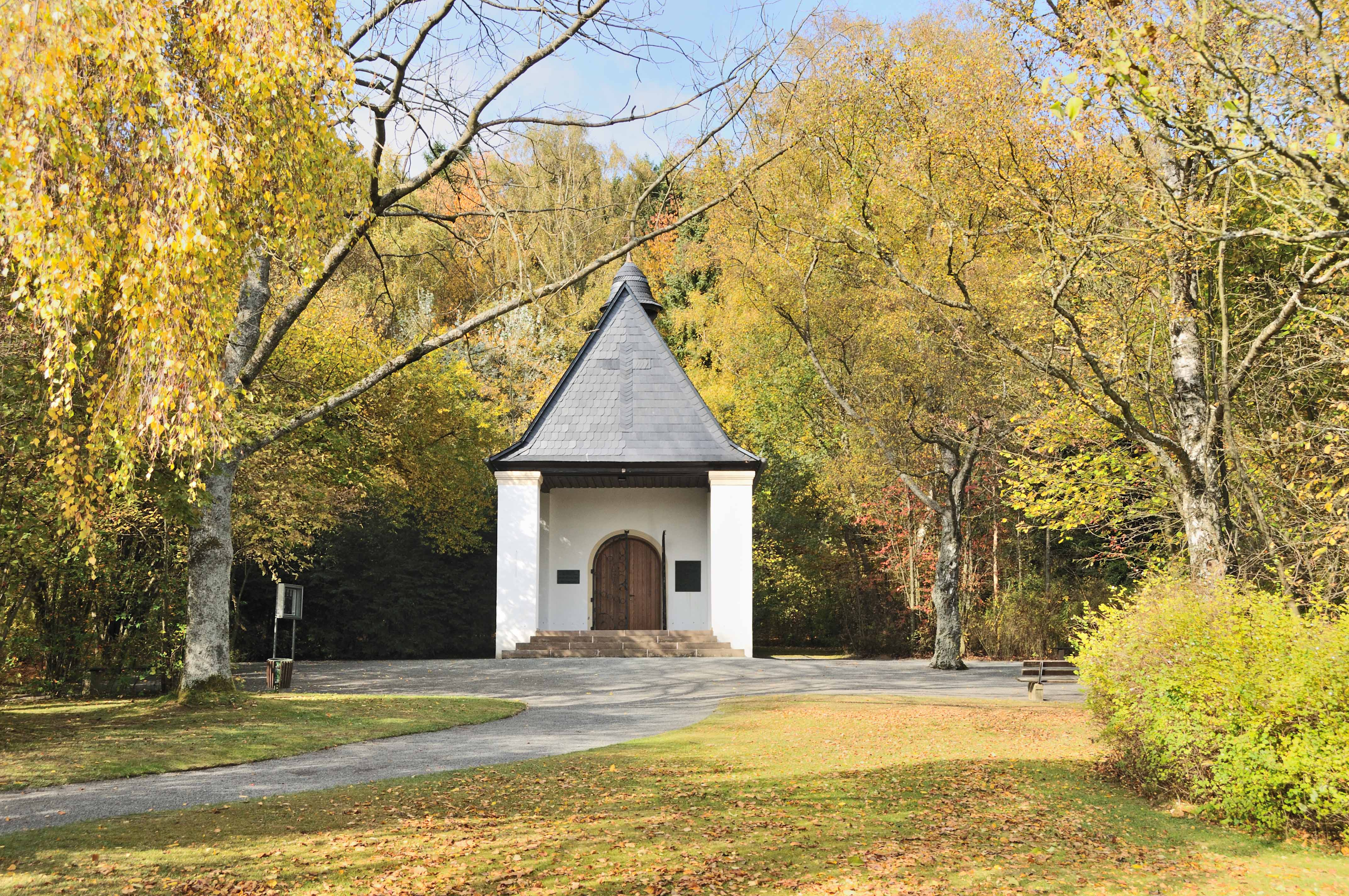 Hinzert concentratrion camp Memorial (Germany, Hunsrück, Rhineland-Palatinate): Chapel